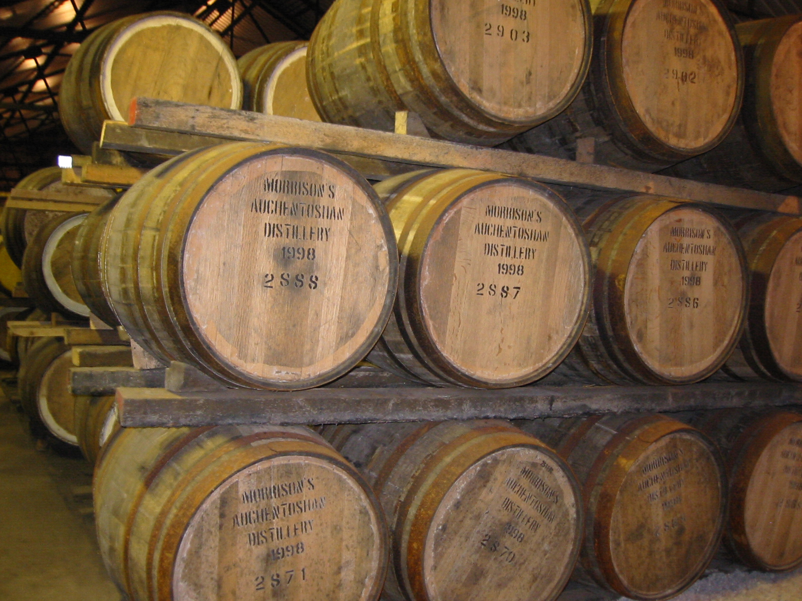 Casks of Auchentoshan, a triple-distilled, single malt, lowland Scotch whisky. taken by User:Nicor